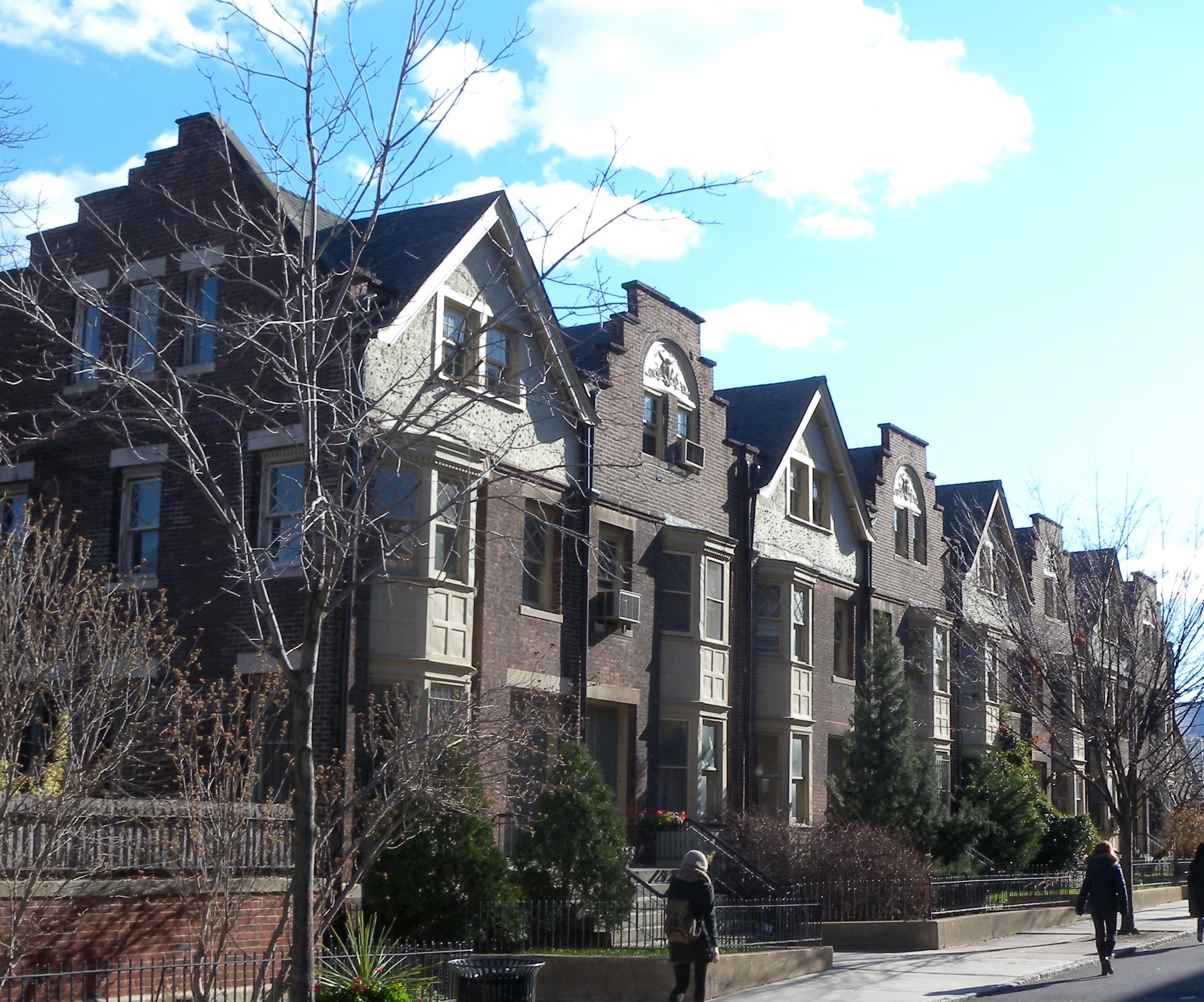 Looking southeast across Steuben Walk at faculty rowhouses on a sunny midday.